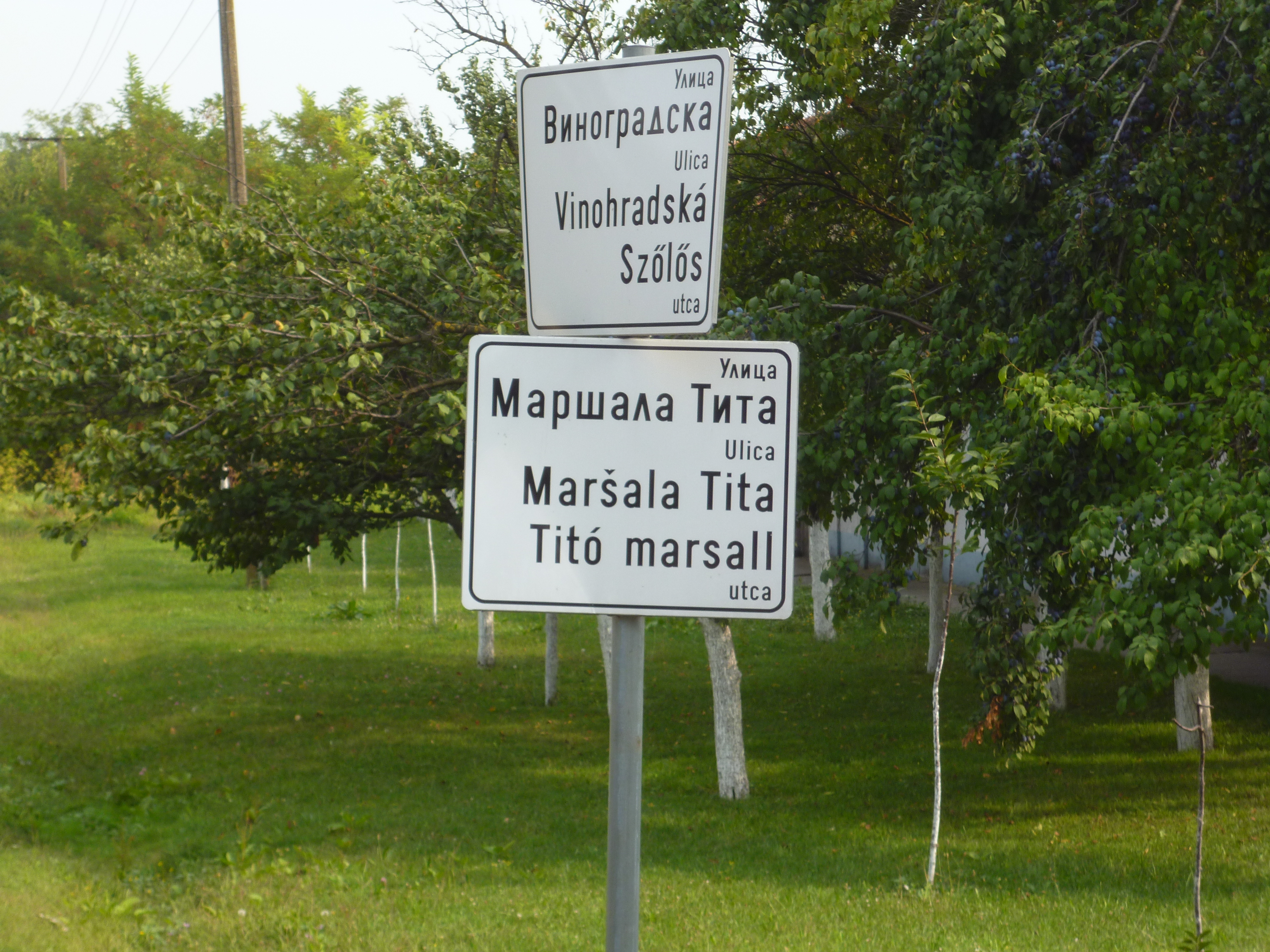 Street name sign, Marshall Tito Street, in Serbian, Slovak, and Hungarian languages, in Belo Blato, part of Zrenjanin, Vojvodina, Serbia.